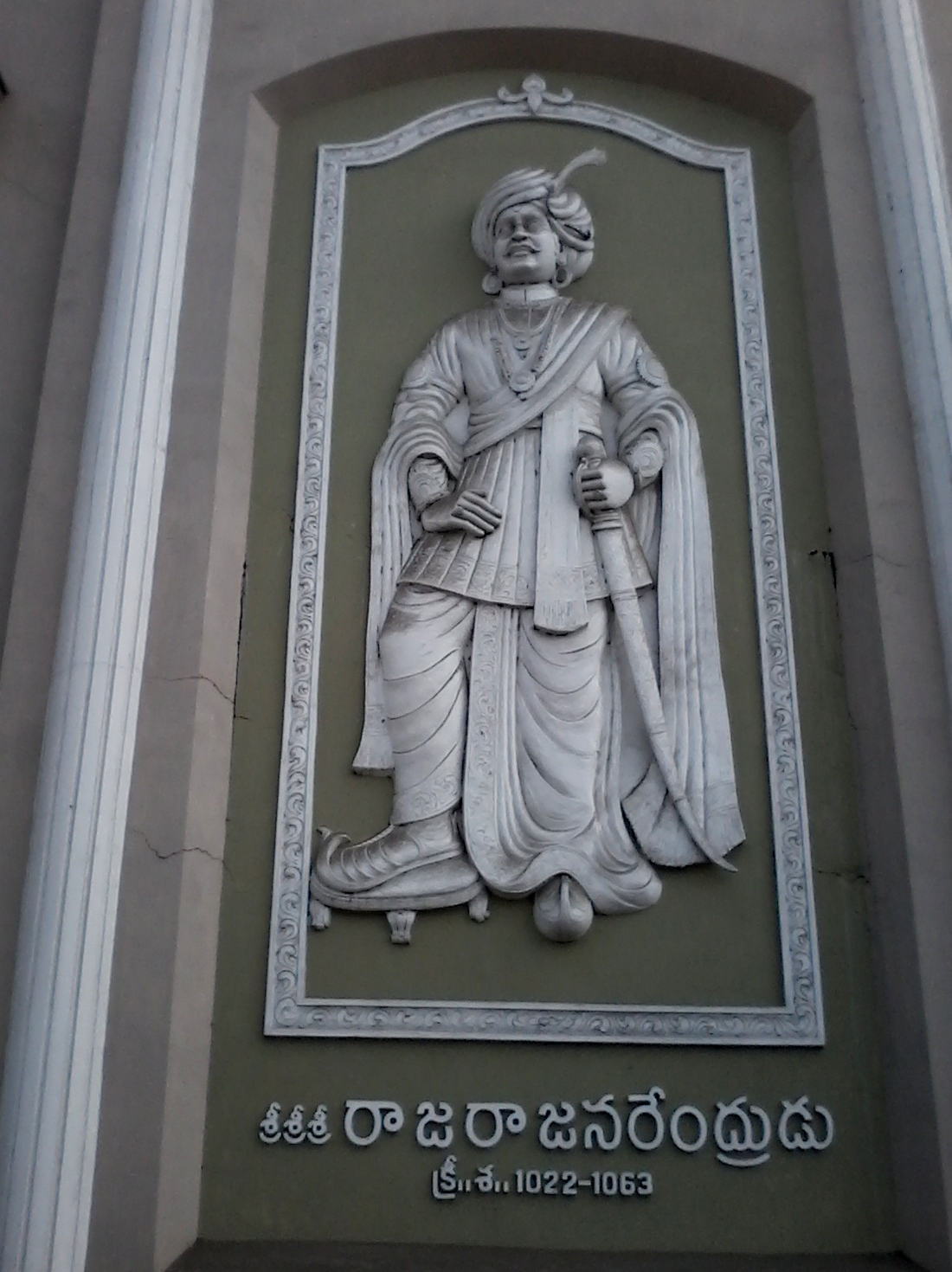 Statue of Rajaraja narendra (క్రీ.శ. 1019–1061), emperor of vengi kingdom, at Rajahmundry Railwaystation